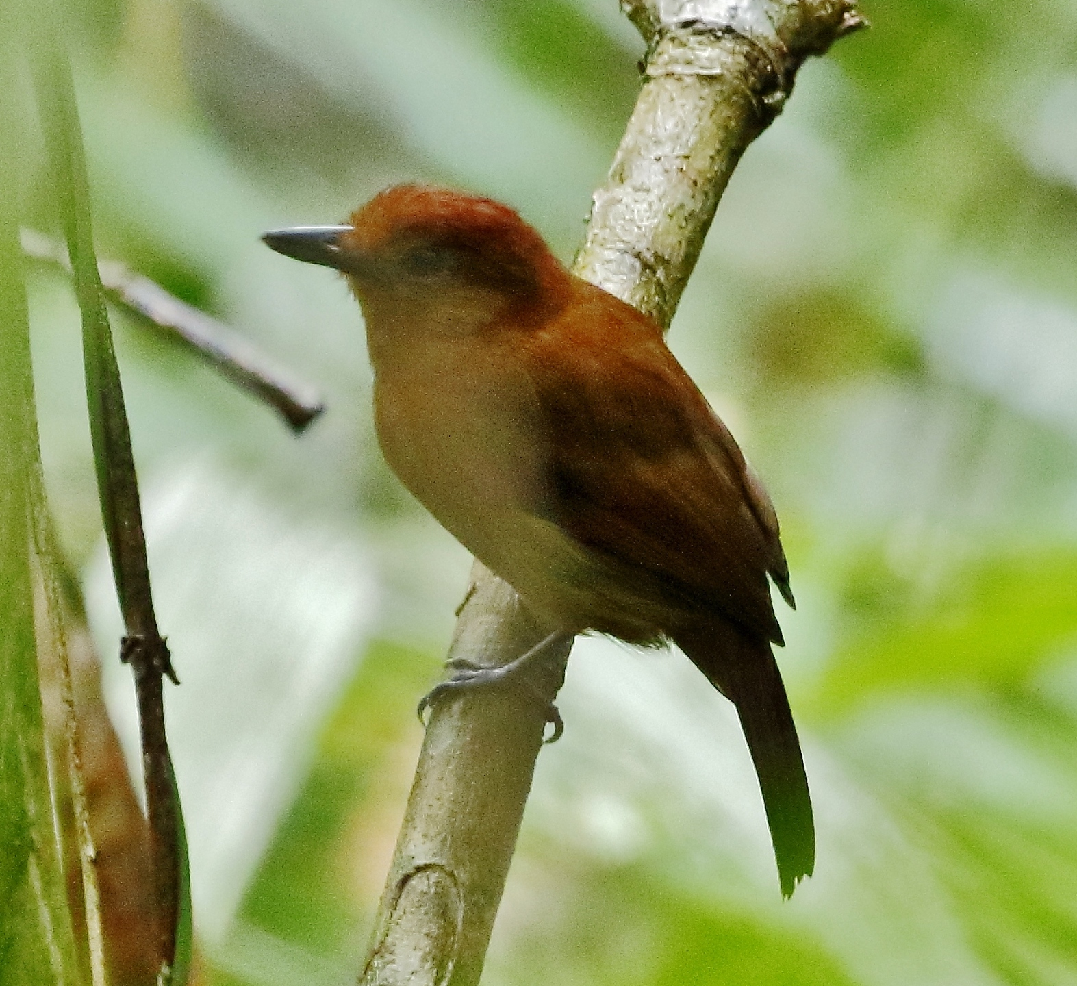 White-shouldered antshrike (female) at Carajás National Forest - Pará - Brazil